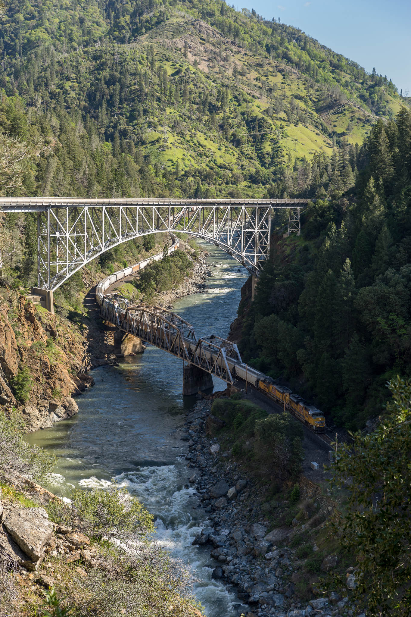 Two rail bridges over the Feather River, Plumas County, California